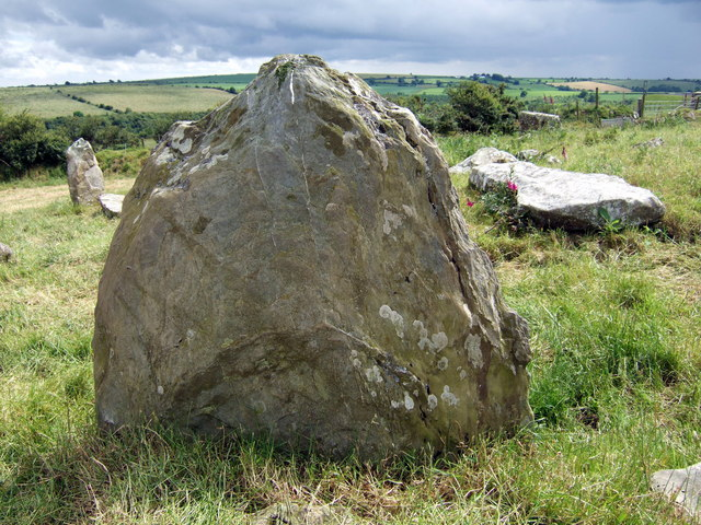 Dyffryn Syfynwy stone circle from the north. This view, looking south, shows the remarkable stone at the north of the stone ring: unlike the others, it is an ovoid slab of slatey rock soft enough for a few initials to have been scratched on it, buried in the ground so that the layers are vertical. It is tempting to imagine that it might have been placed over the entrance to a large central burial chamber.